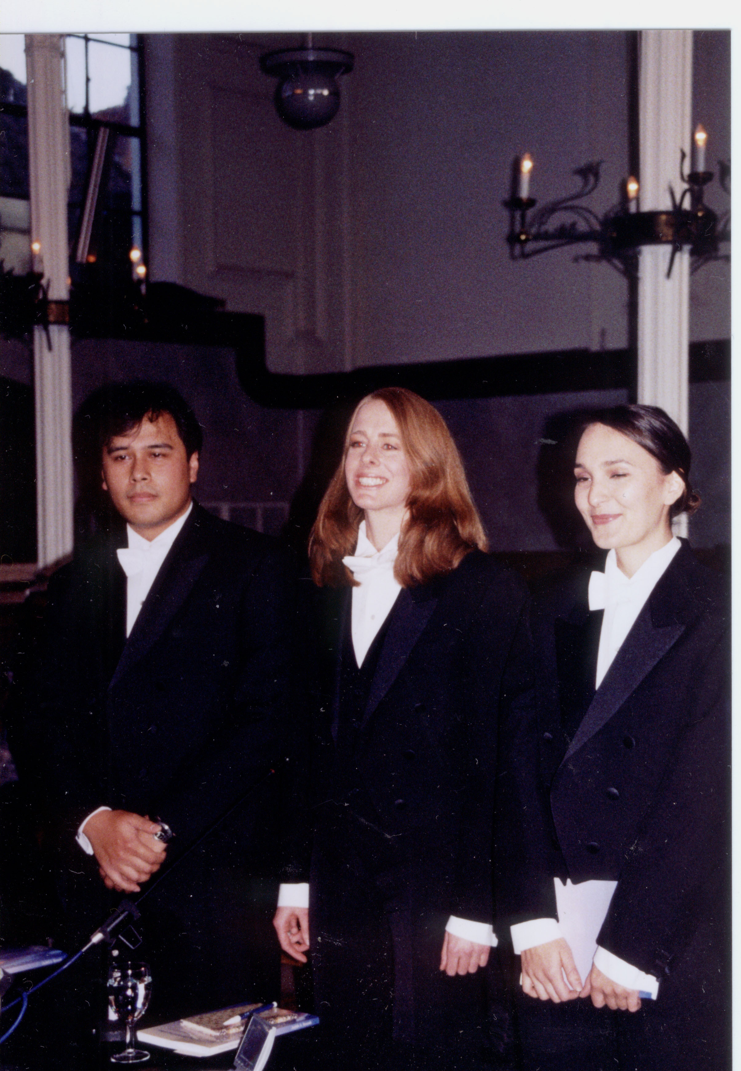 Doctoral promotion of Judith Bosnak with me